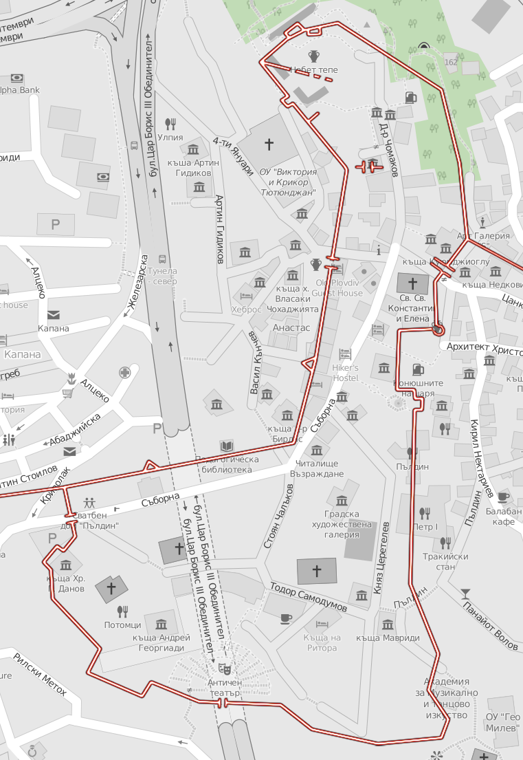 Plan of the fortification of the three hills of Philippopolis